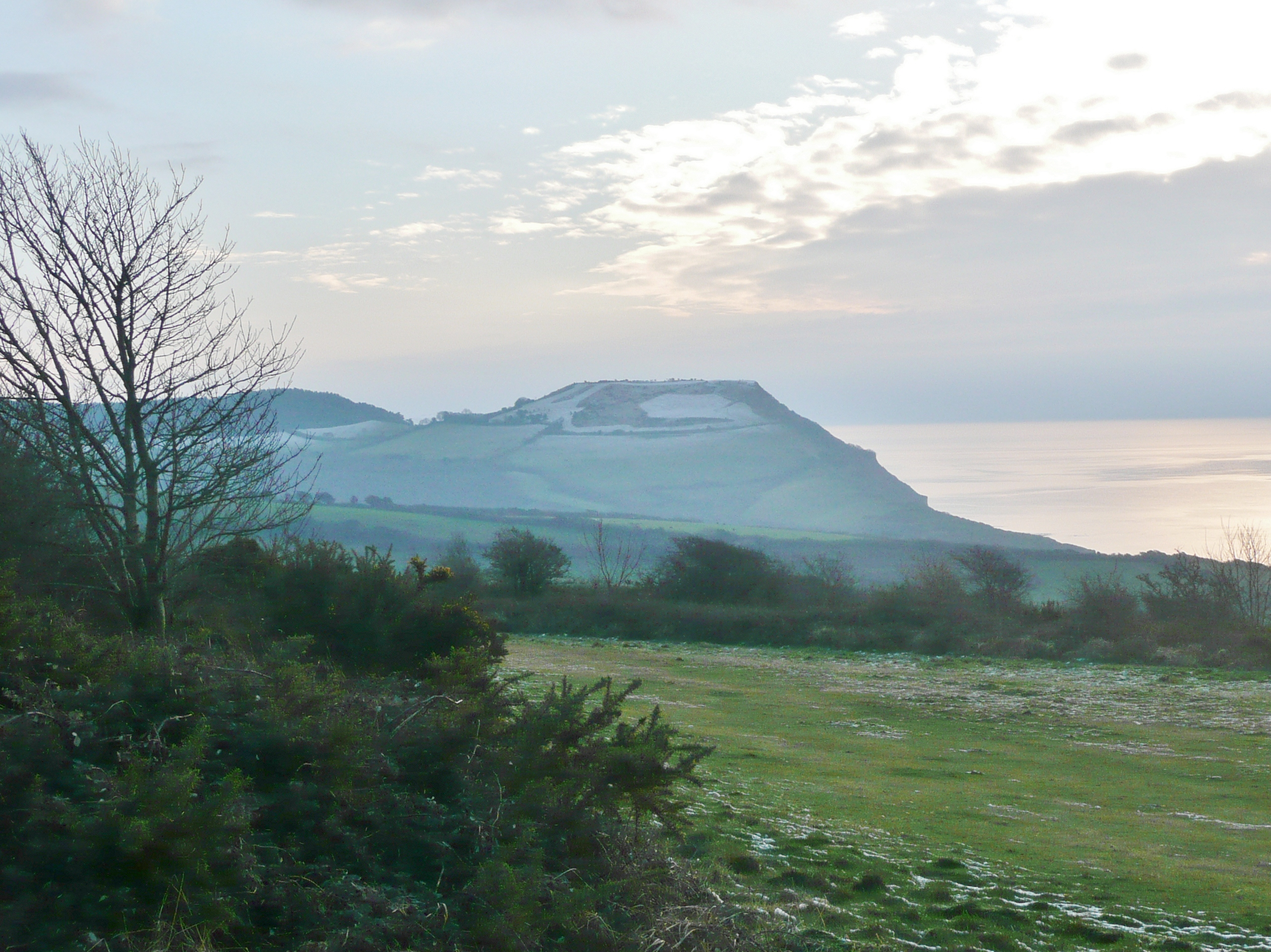 View of Golden Cap taken from Stonebarrow Hill in January 2013.